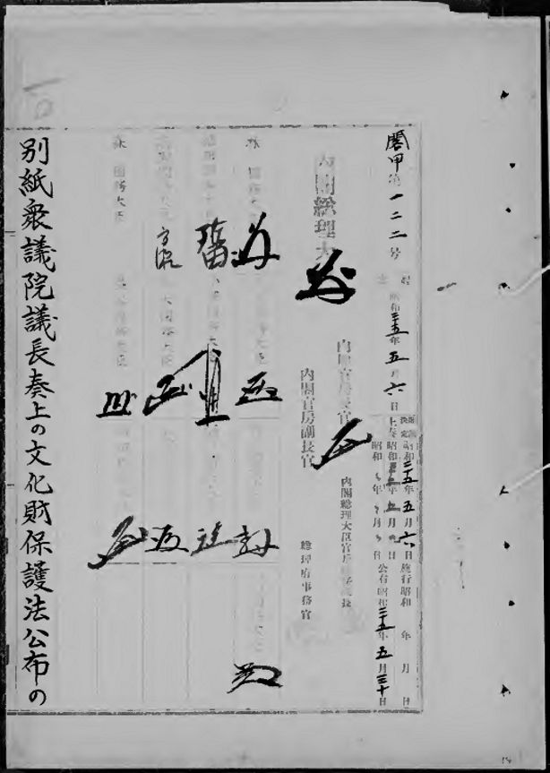 Japan : the Shigeru Yoshida's signature on the 1950 lesgilation No. 214 enacting the Law for the Protection of Cultural Properties.